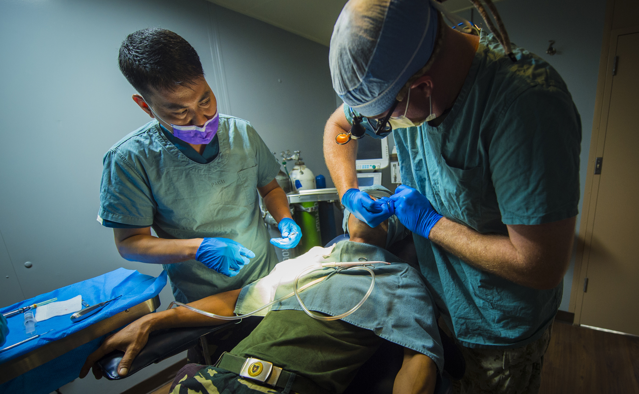 ROXAS CITY, Philippines (July 21, 2015) Philippine army Maj. Fernando Mojica Jr., dentist (left), observes Navy Lt. David Green, a dentist from Longmot, Colo., performs a dental procedure aboard the hospital ship USNS Mercy (T-AH 19) during Pacific Partnership 2015. Dentists conducted a subject matter expert exchange to share ideas and techniques to improve their dental practices. Mercy is currently in the Philippines for its third mission port of PP15. Pacific Partnership is in its 10th iteration and is the largest annual multilateral humanitarian assistance and disaster relief preparedness mission conducted in the Indo-Asia-Pacific region. While training for crisis conditions, Pacific Partnership missions to date have provided real world medical care to approximately 270,000 patients and veterinary services to more than 38,999 animals. Additionally, the mission has provided critical infrastructure development to host nations through more than 180 engineering projects. (U.S. Air Force Photo by Tech. Sgt. Araceli Alarcon/RELEASED)